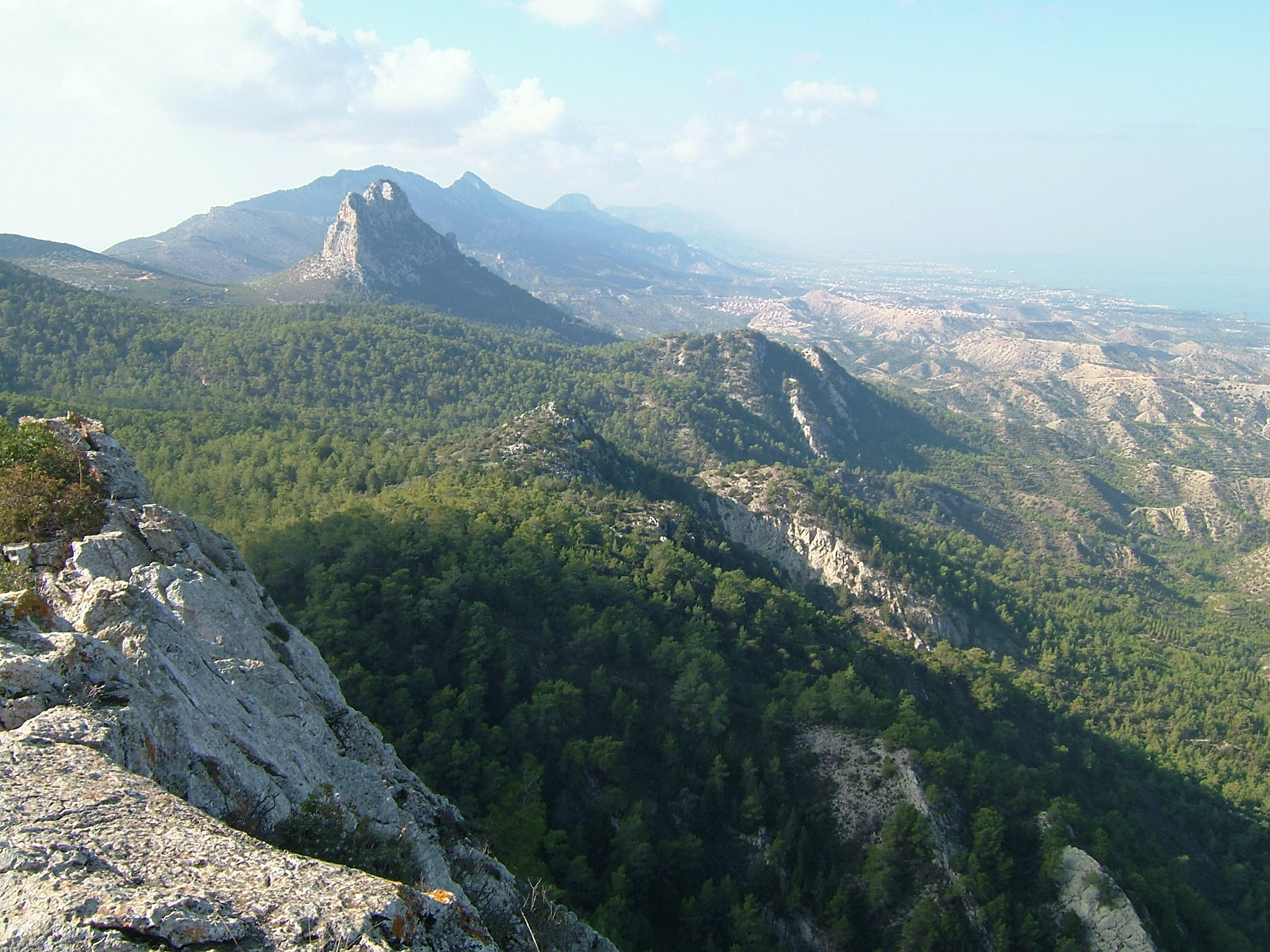 View of Halefka forest in Keryneia, Cyprus